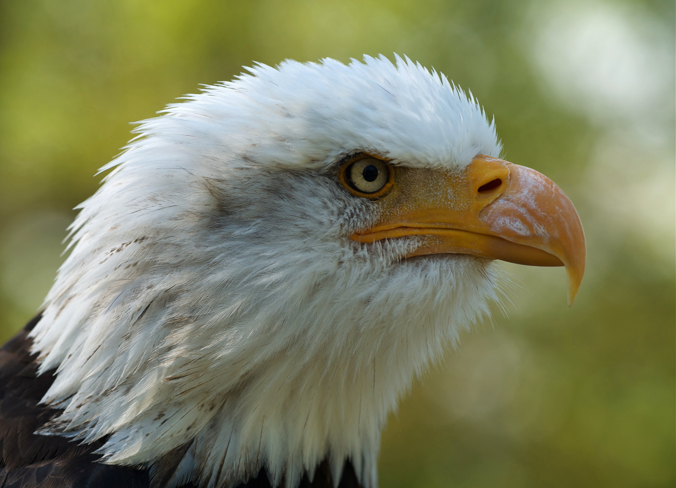 Bald eagle (Haliaeetus leucocephalus) on a bird show on the castle Augustusburg, Germany